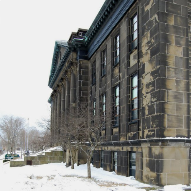 New Brunswick Museum Self made photo. Cropped and adjusted for contrast.